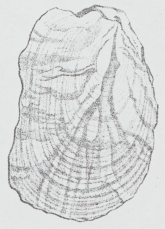 Internal rudimentary shell of a Limacidae (slug) species. Fossil from the Cromer Forest Bed (U.K.), Cromerian, Middle Pleistocene.